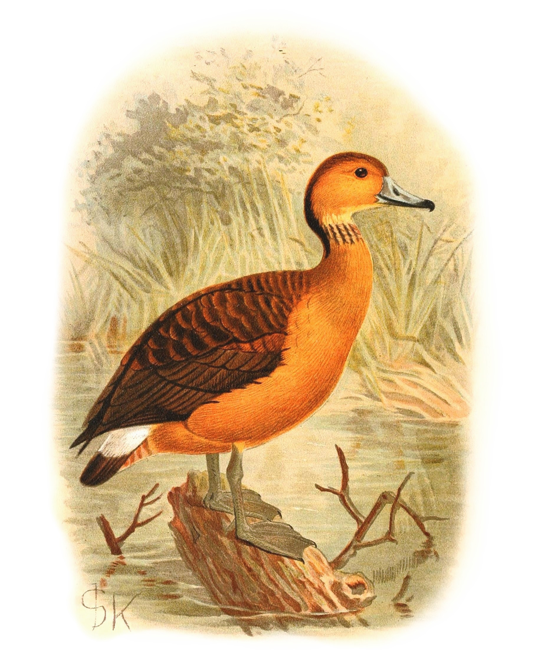 The Greater Whistling Tail Dendrocycna fulva = Dendrocygna bicolor (Fulvous Whistling Duck)